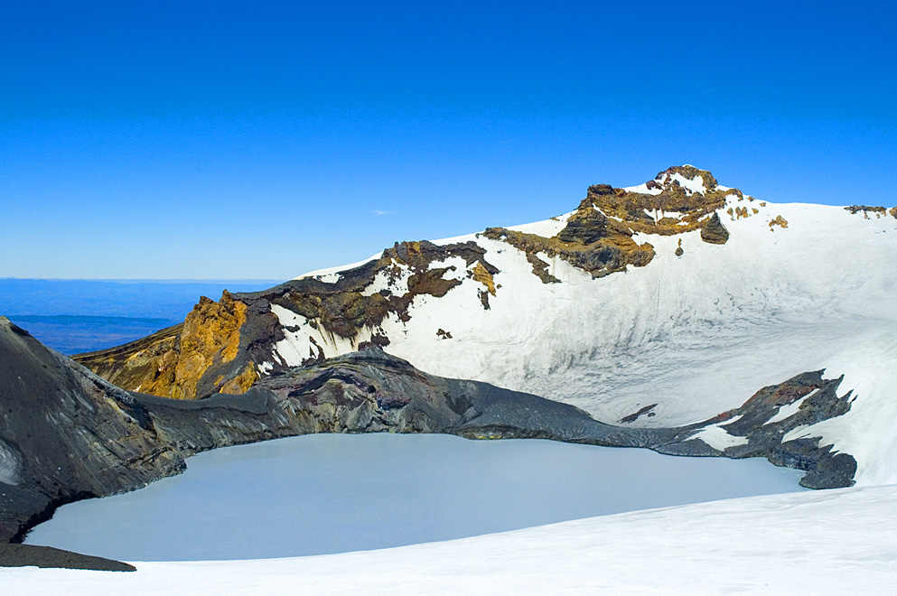 Crater Lake at top of Ruapehu (29 January 2005.) Photograph by James Shook, who retains copyright and releases the image under the license shown below